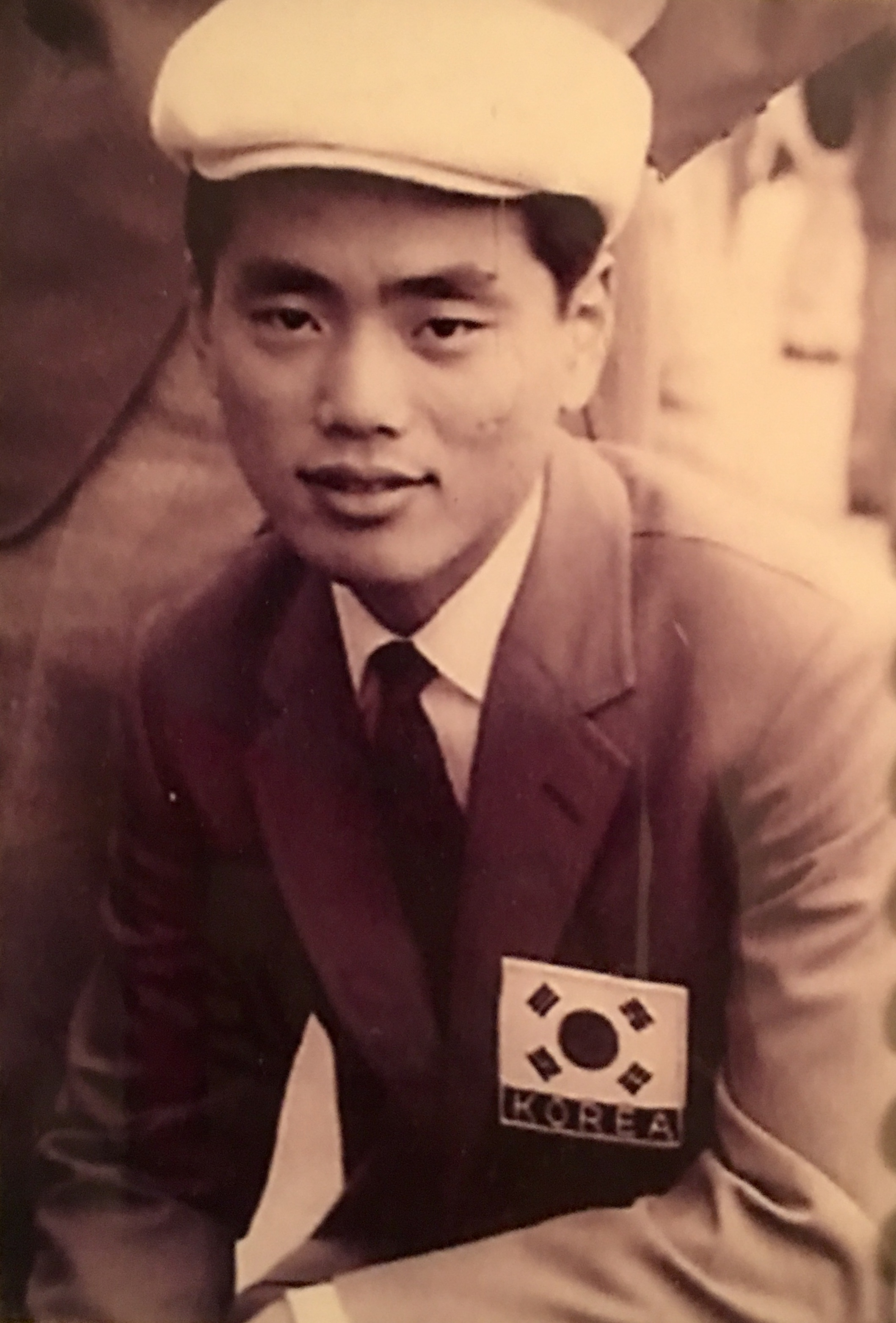 Photo taken in 1964 (age 20).